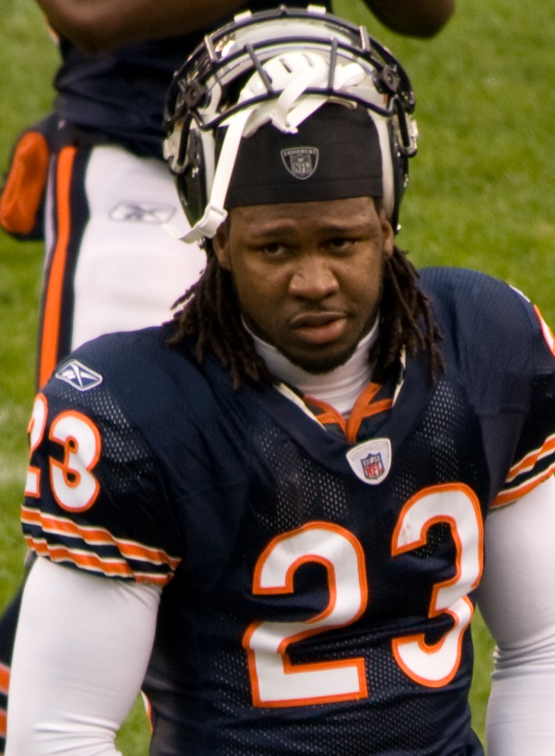 Devin Hester of the Chicago Bears